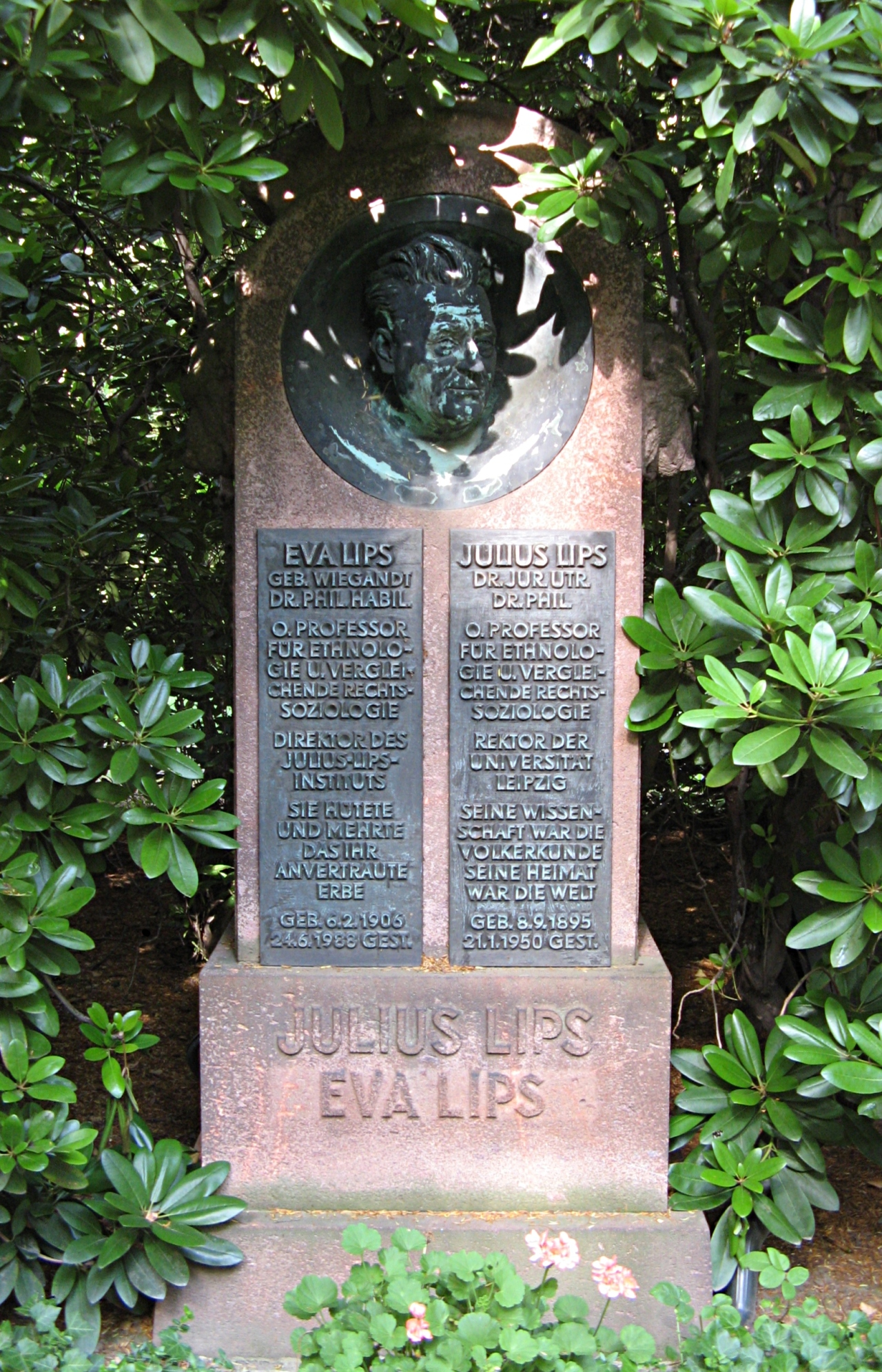 Gravestone of German ethnlogists Julius Lips and Eva Lips (wife of Julius Lips) at Südfriedhof (south cemetery) Leipzig